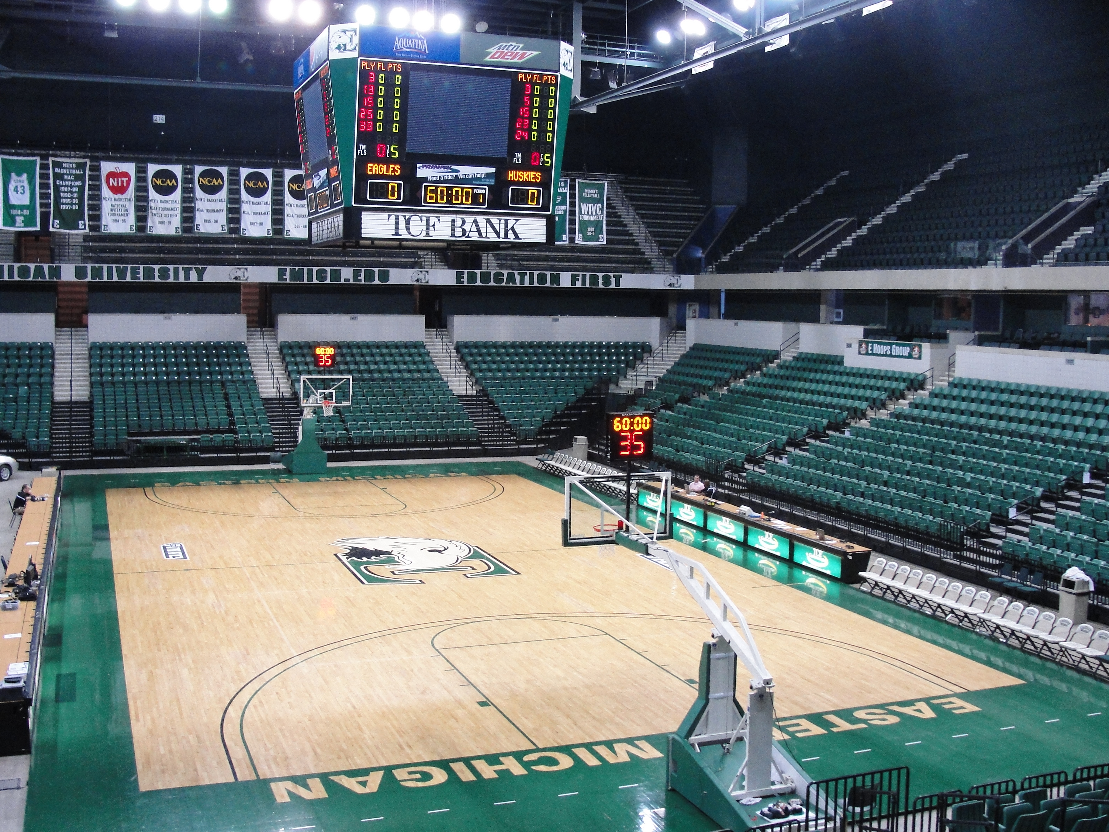 Eastern Michigan University Convocation Center